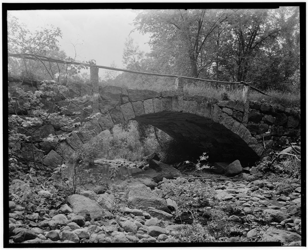 Second New Hampshire Turnpike Bridge, Fullers Tannery, Hillsboro, Hillsborough County, NH